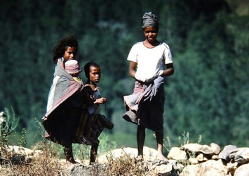 Mambai people near Maubisse/East Timor